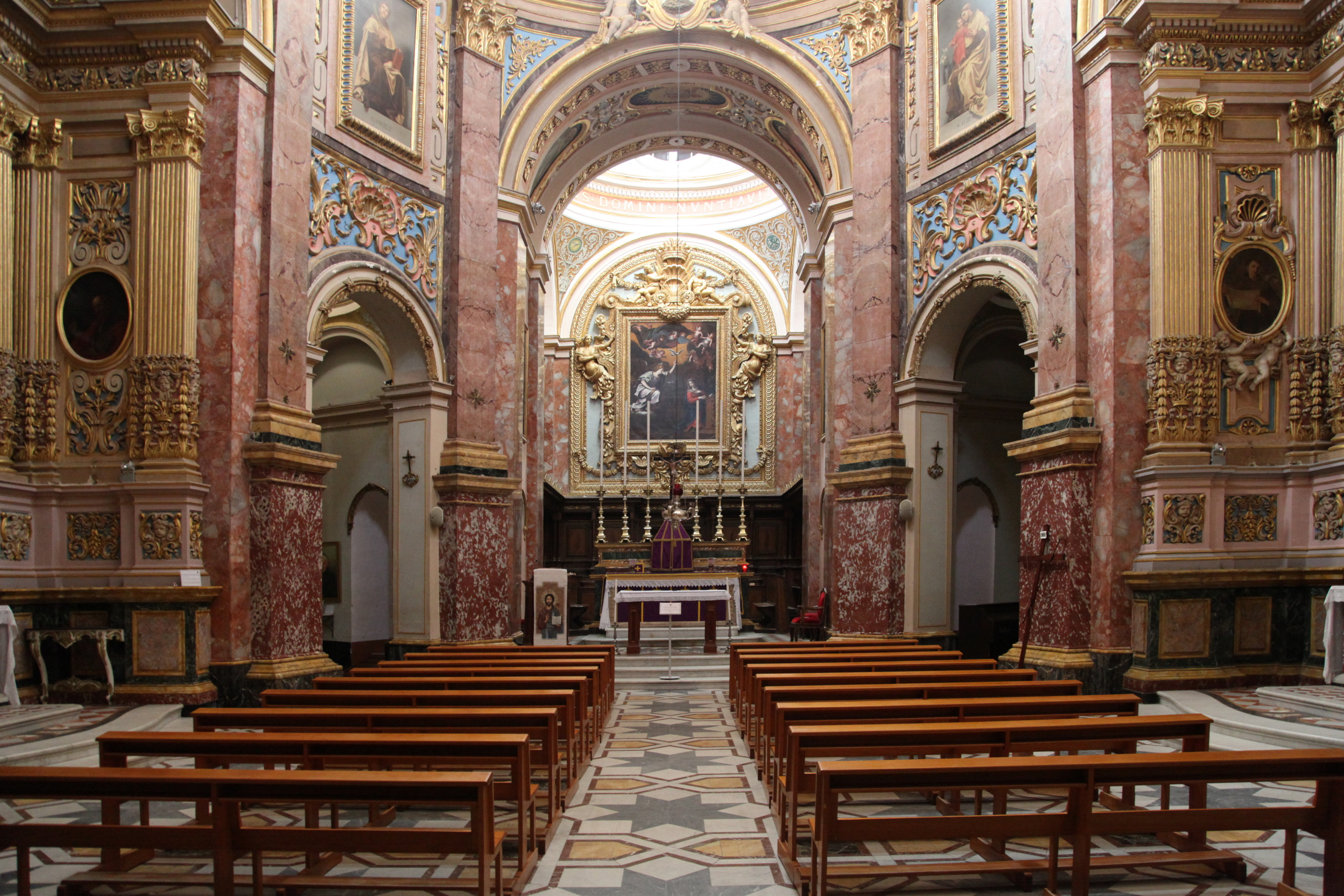 Carmelite Priory Church, Triq Villegaignon in Mdina, Malta